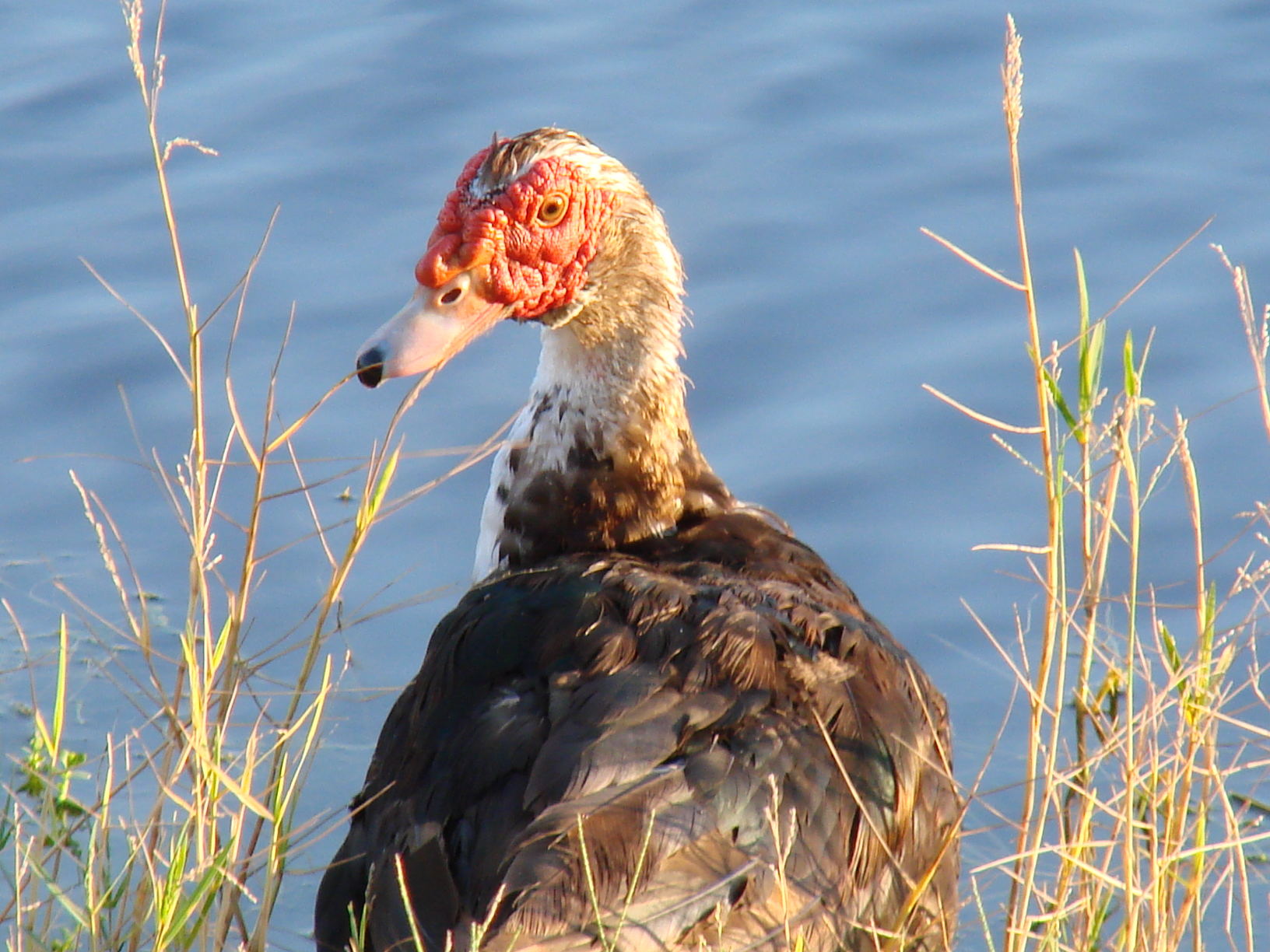 Male domestic Muscovy Duck